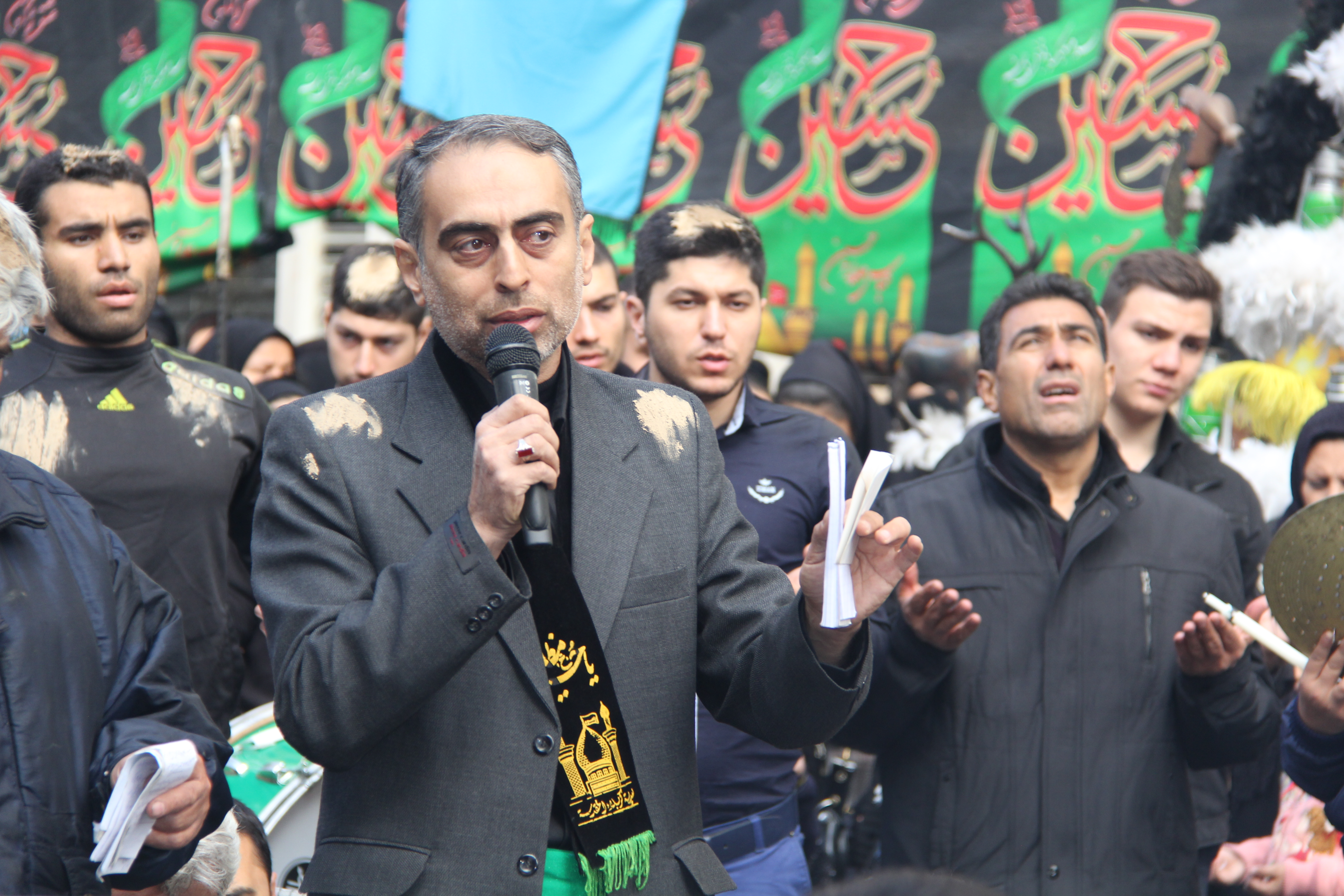 Mourning of Muharram is held in majority of cities and villages in Iran by Shia Muslims annually. Although all sort of ceremonies are performed for Imam Hossein and his followers martyrdom remembrance, they have different styles and rules referring to various cultures.